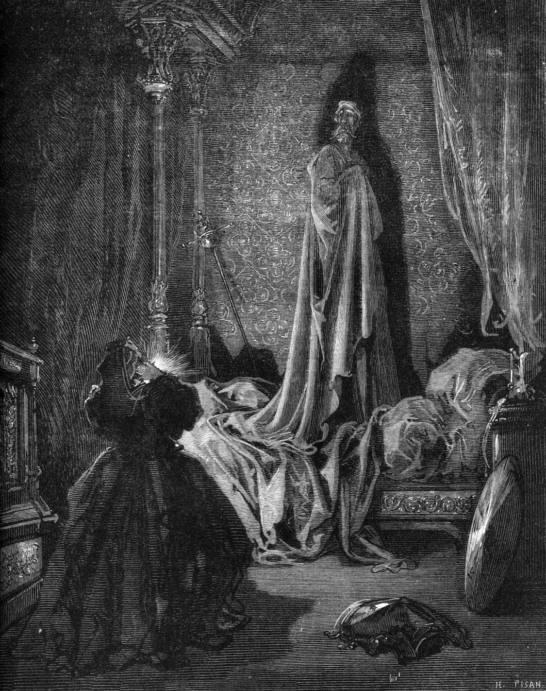 Illustration by Gustave Dore.